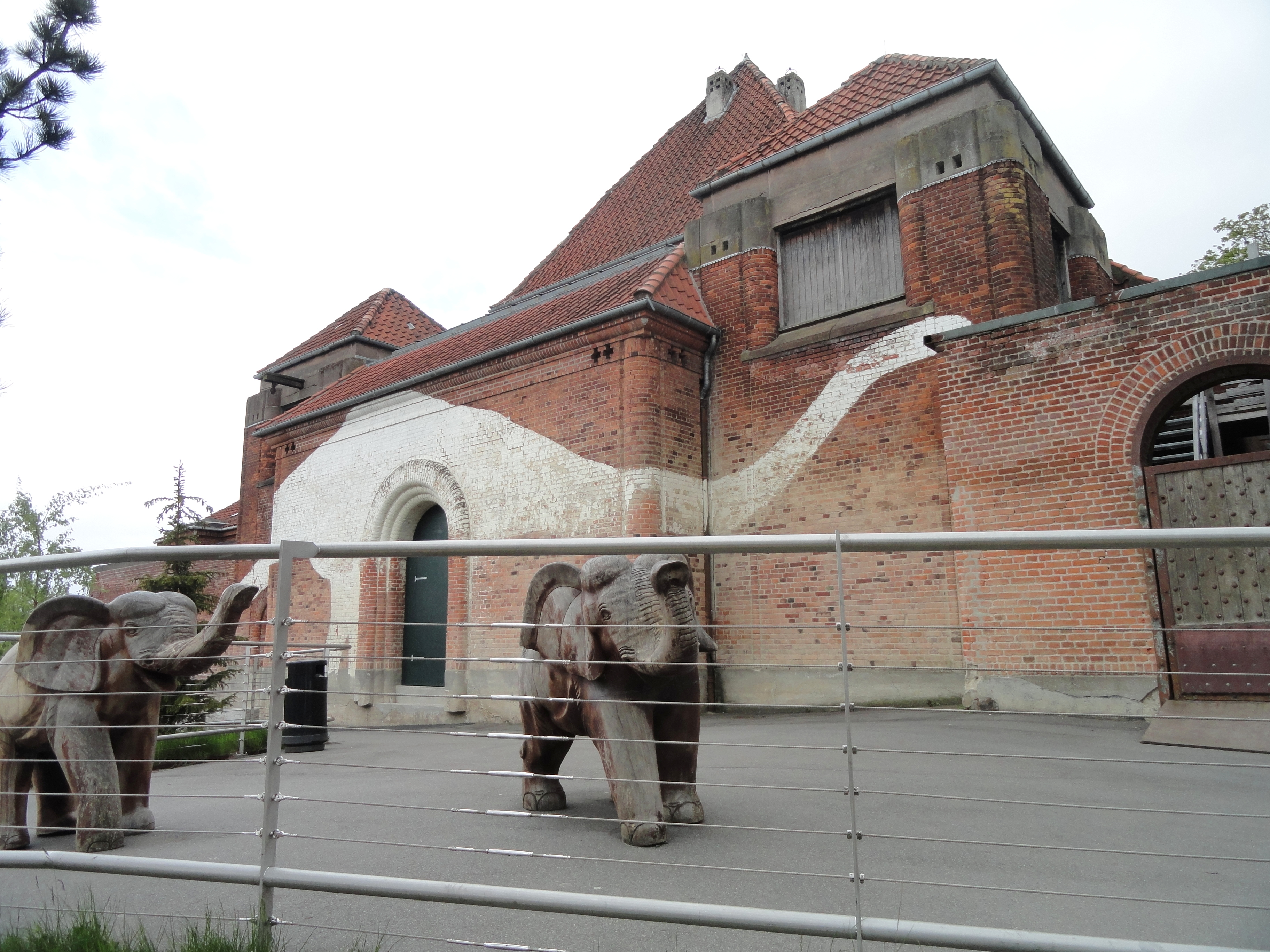 Copenhagen Zoo, Frederiksberg, Copenhagen, Denmark.